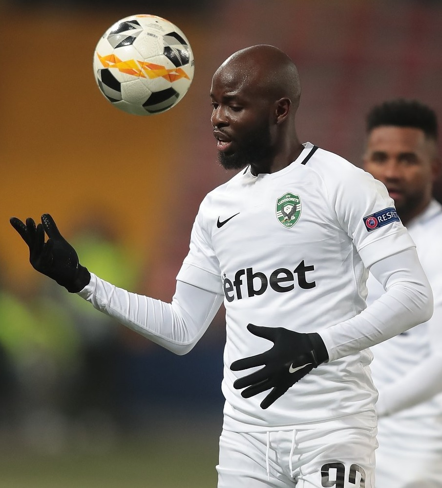 Jody Lukoki with PFC Ludogorets Razgrad in an Europa League game against PFC CSKA Moscow.